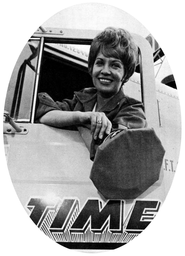 Trade ad for Norma Jean's single "Truck Driving Woman". To better adapt it to his respective Wikipedia article, the ad was cropped and cleaned in a graphics editing program. The original can be viewed at the source below.